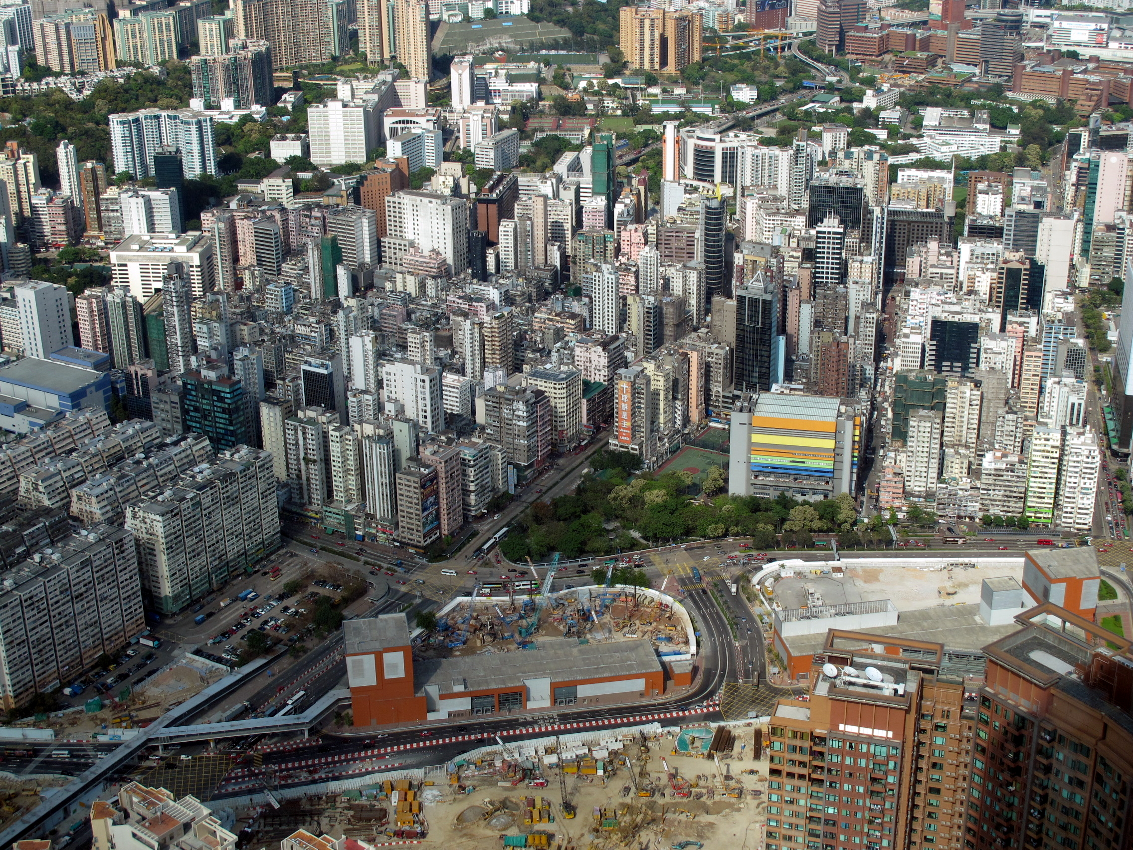 Jordan View from ICC Sky 100